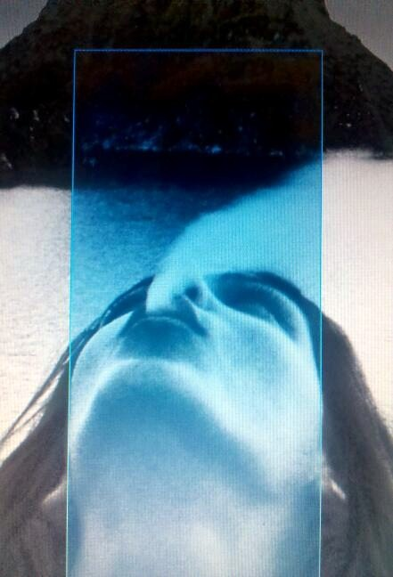 Mobile desktop collage of original photo by Adriana Petit.